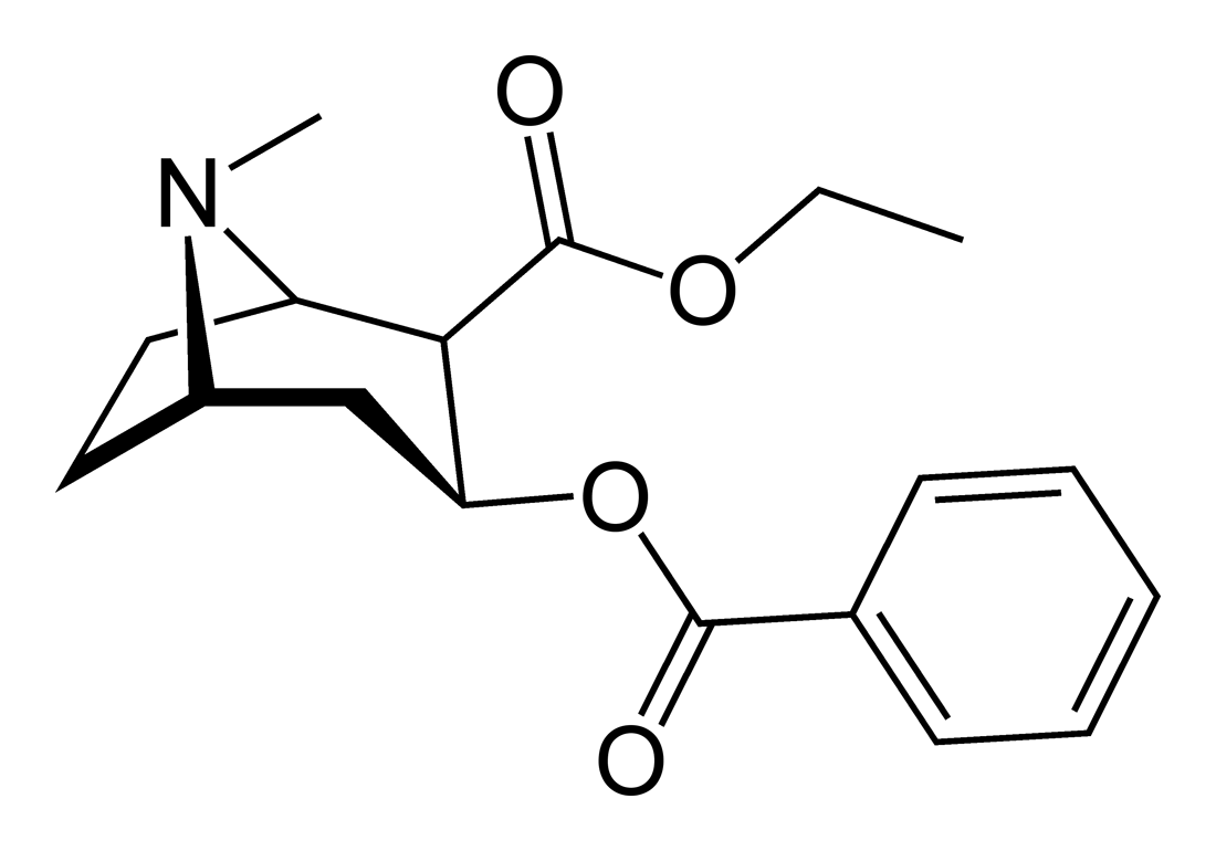 Skeletal formula of cocaethylene